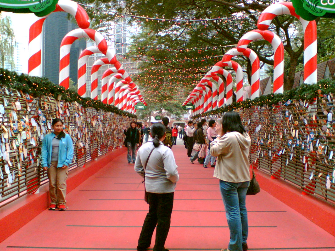 2005 Hong Kong WinterFest, taken by User:Minghong (December 10 2005).